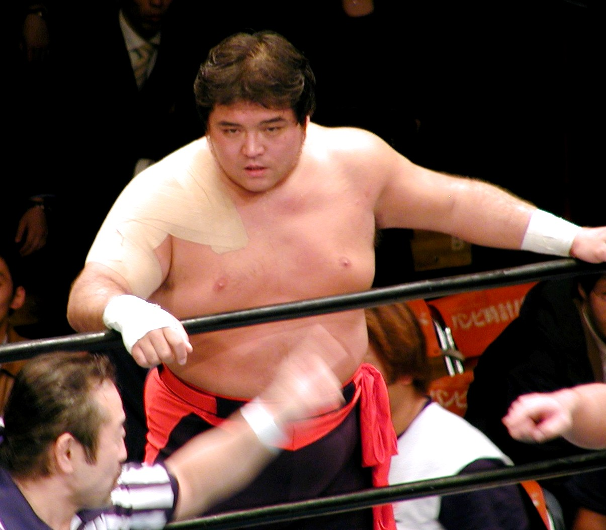 Shinya Hashimoto at WJ event, at the Korakuen Hall on January 5, 2004.